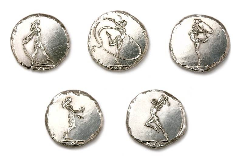 Gymnast girls, silver, struck, 39 mm, 1987